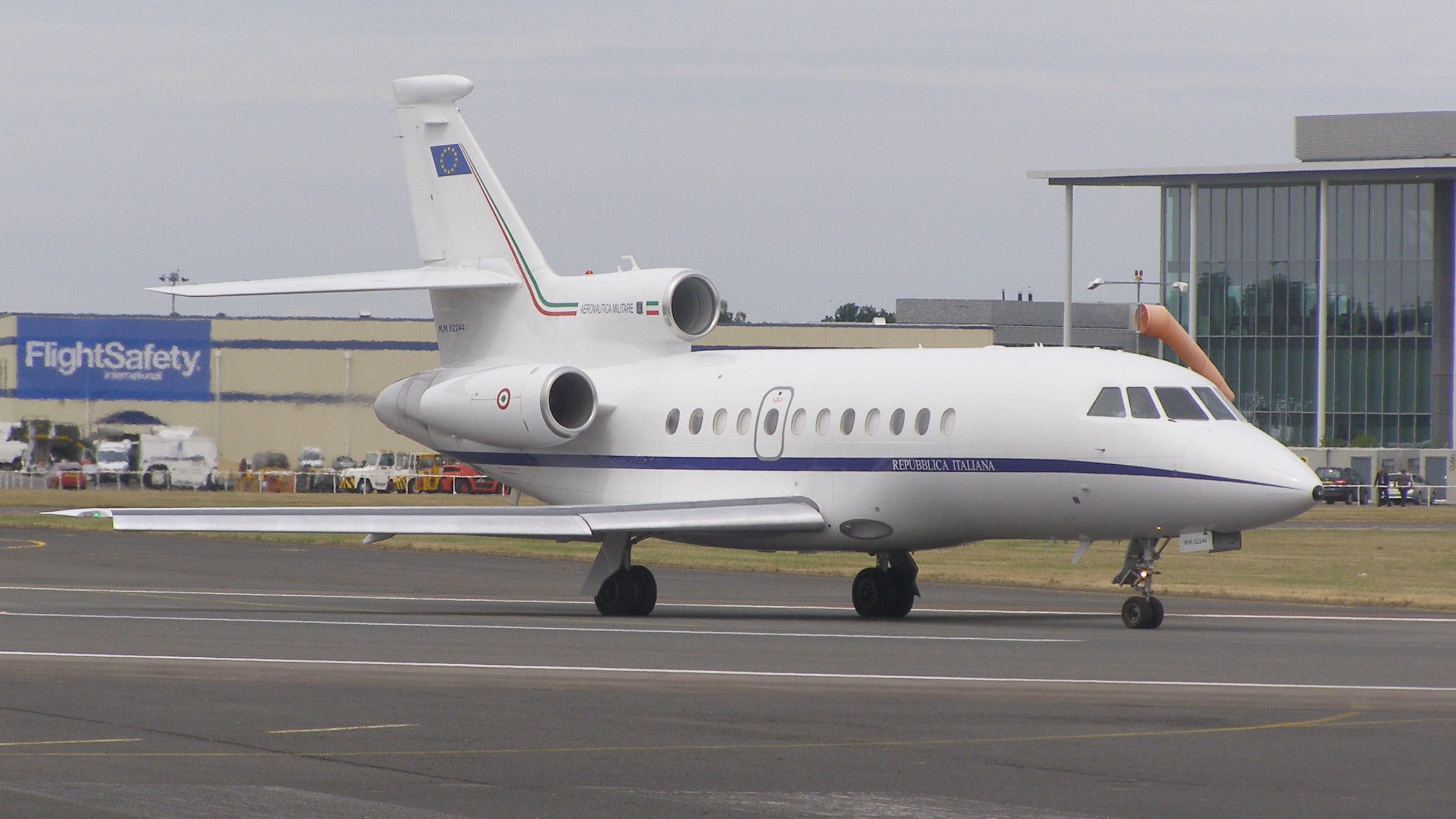 MM62244 is an Italian Air Force Dassault Falcon 900EX departing from Farnborough after visiting the 2010 Farnborough Airshow